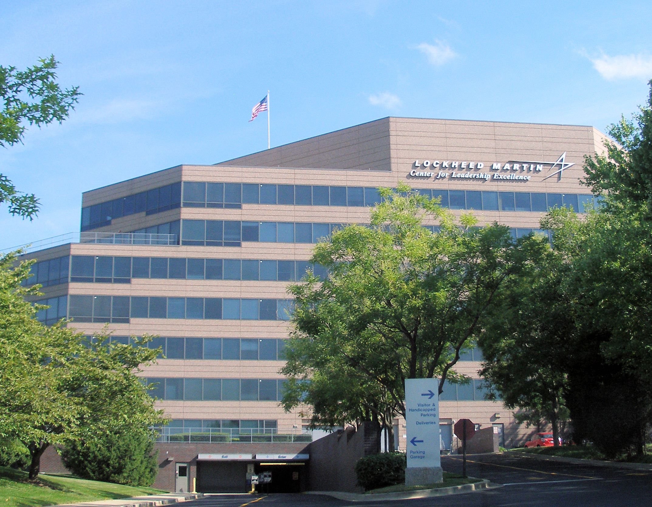 Main entrance to Lockheed Martin Center for Leadership Excellence (CLE) in Bethesda.